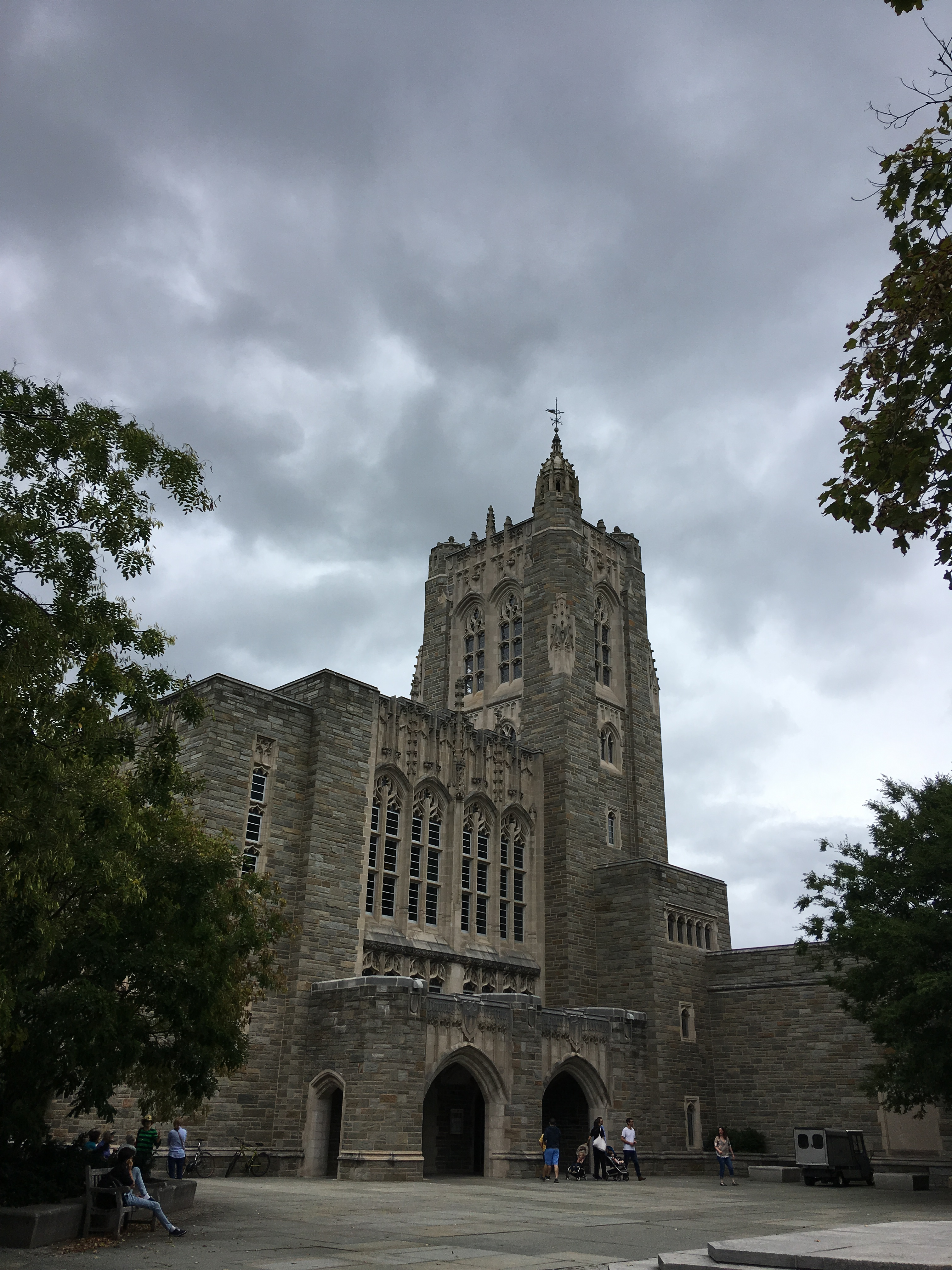 Princeton University Library